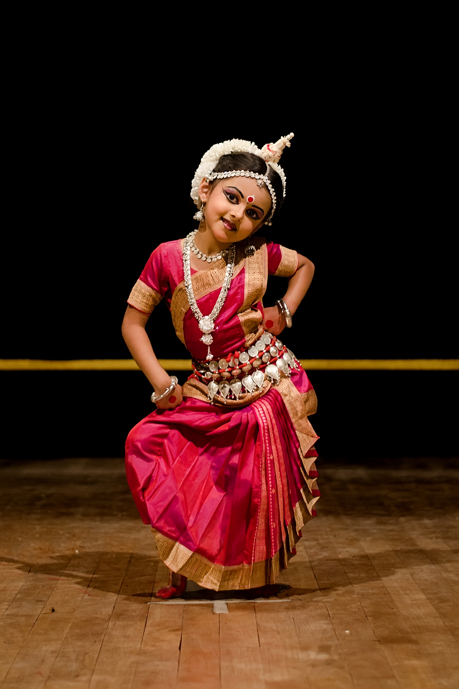 Shrinika Purohit, Odissi dance